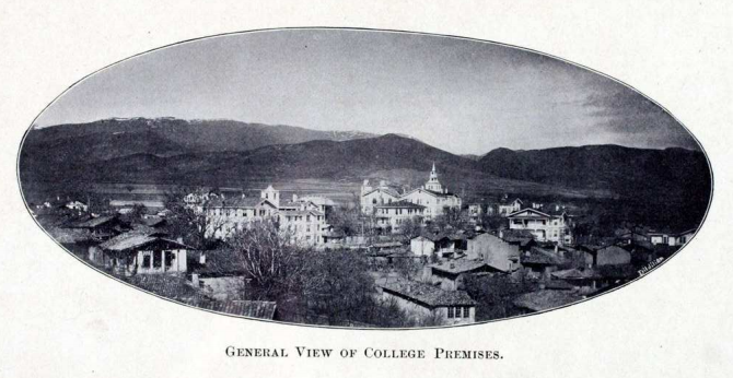 General view of Anatolia College in 1902, when it was still located in Turkey prior to moving to Thessaloniki, Greece.